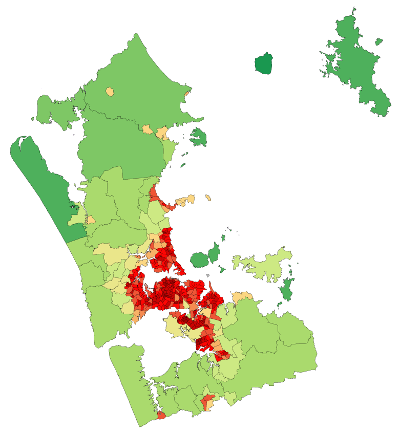 Map showing population density of a region of New Zealand (by Statistics NZ Area Unit) as of the 2006 census